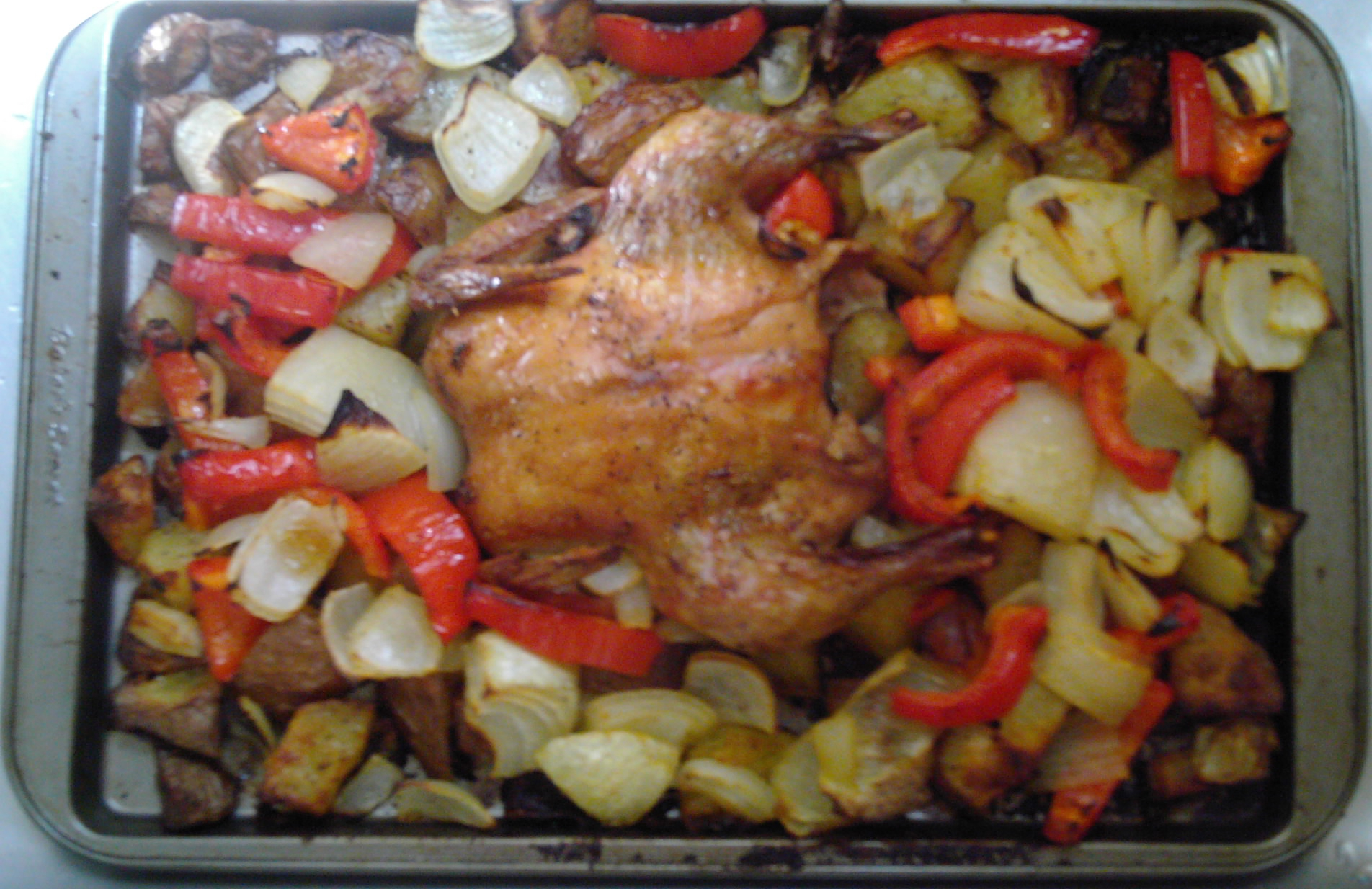 Baked rock Cornish game hen with roasted red potatoes, red bell peppers, yellow onions, olive oil, salt and pepper.